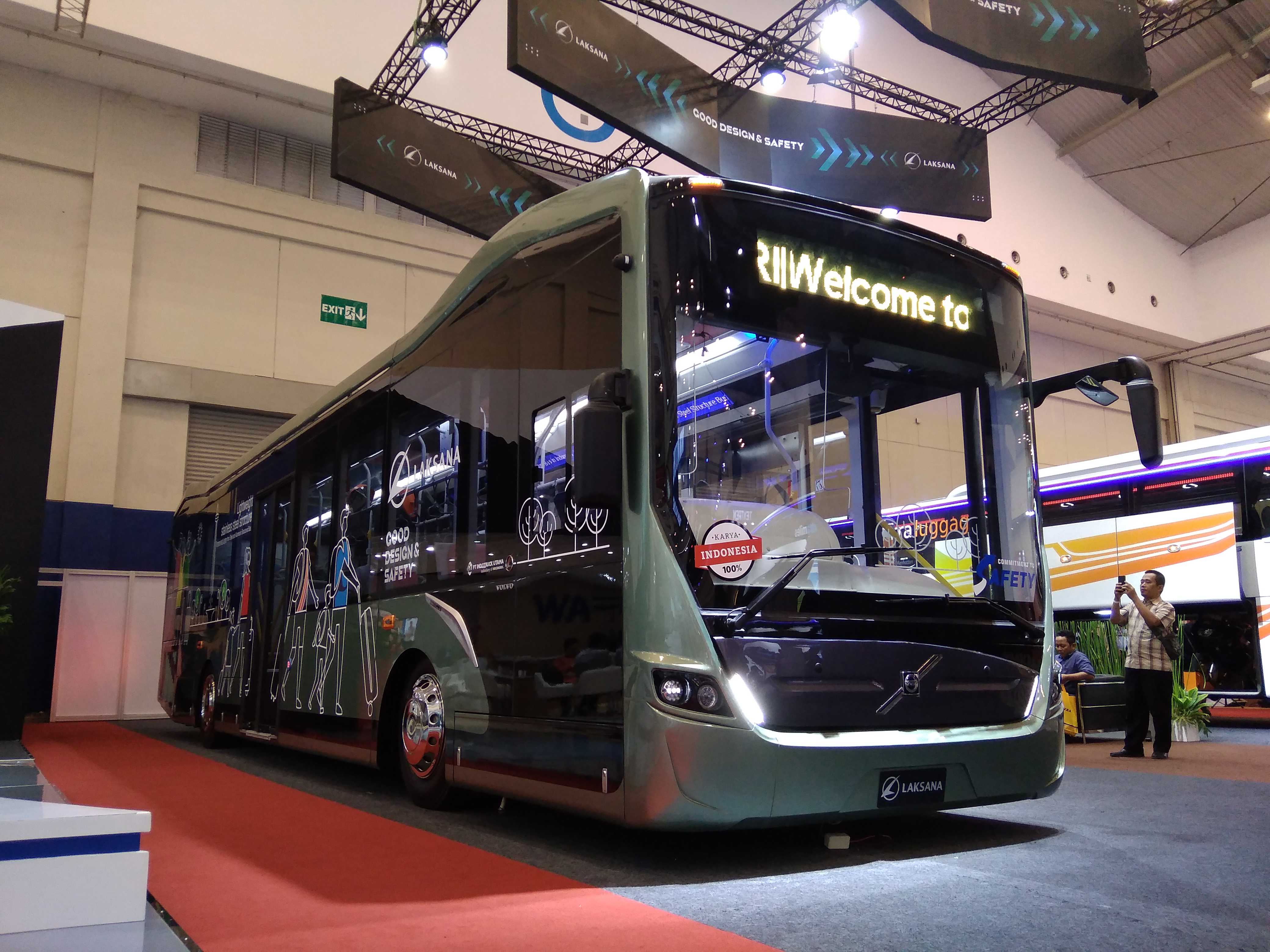 The Laksana Cityline3 LE bodied Volvo B8RLE in CV Laksana booth at GAIKINDO Indonesia International Auto Show 2019 (GIIAS 2019).